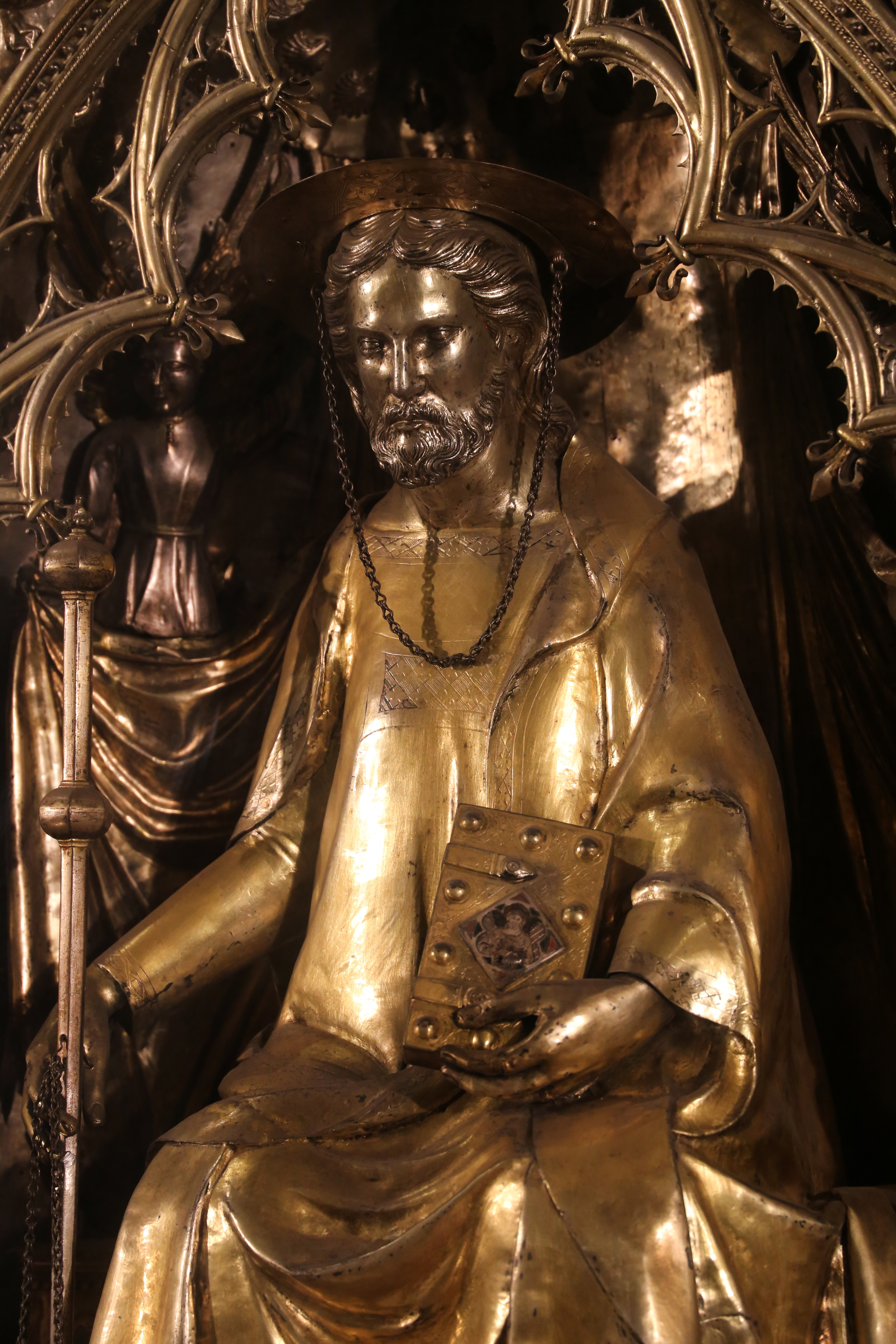 Silver Altar of Saint James